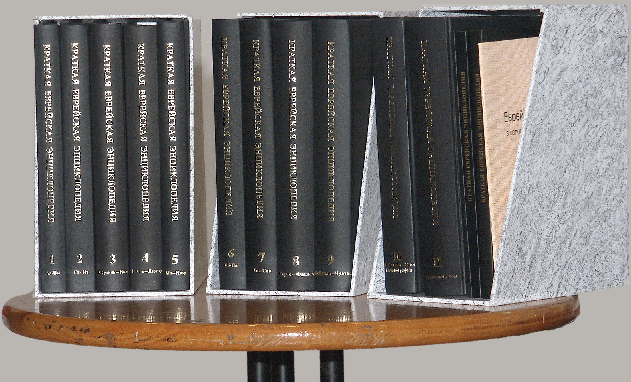 Full set of 11 volumes, calendar and 3 supplements of the Shorter Jewish Encyclopedia in Russian (Jerusalem, 1976-2005), Photo by Alexander Figlin, Jerusalem, 2005